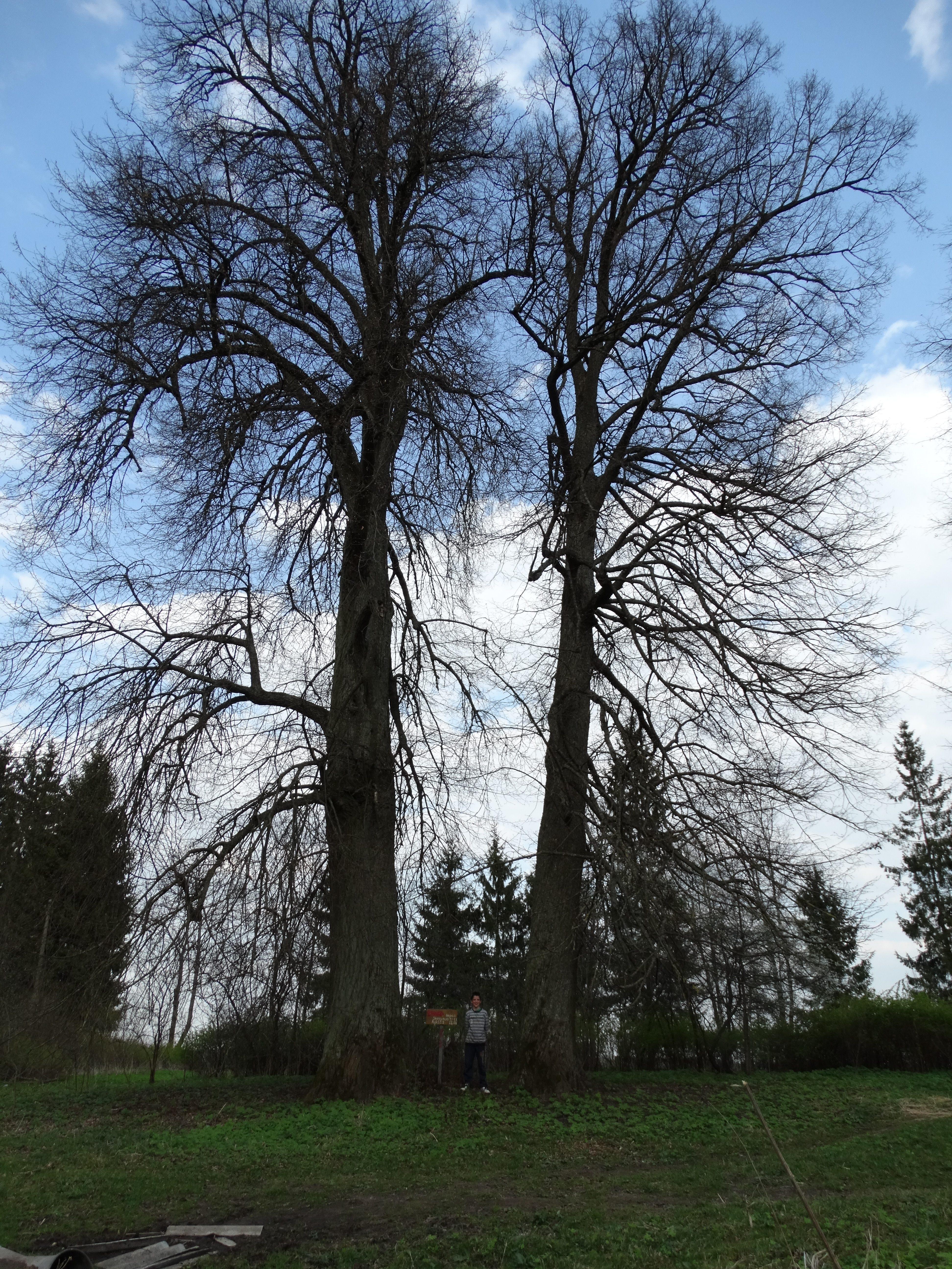 Upninkai linden trees, Jonava, Lithuania